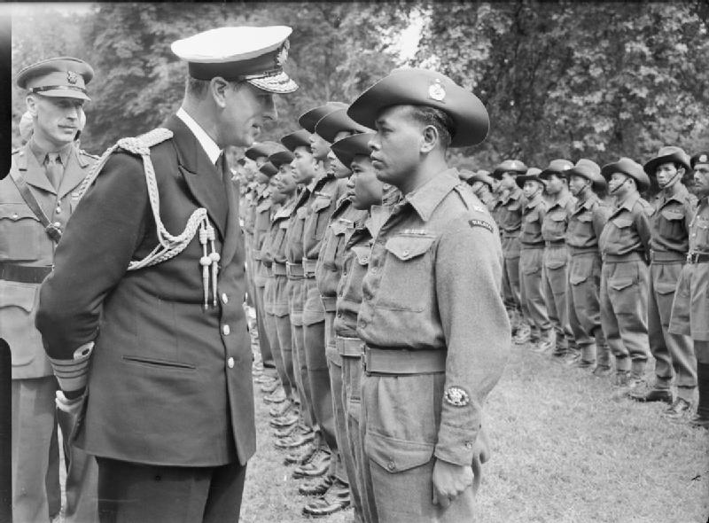 Lord Louis Mountbatten Visits Malayan Contingent, Kensington Gardens, London, England, UK, 1946 Lord Louis Mountbatten inspects Malayan troops in Kensington Gardens, London. The men were in London to take part in the Victory Parade, which took place on 8 June.